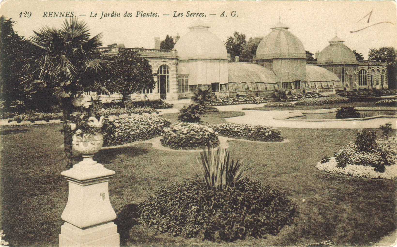 Postcard of "Parc du Thabor", in Rennes, France.